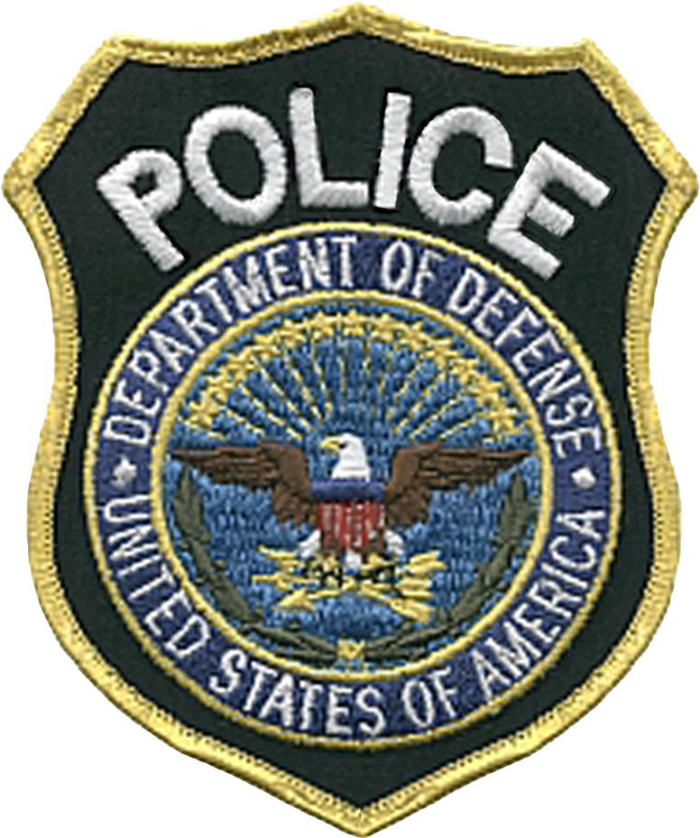 Image is similar, if not identical, to the United States Department of Defense Police patch. Made with Photoshop.